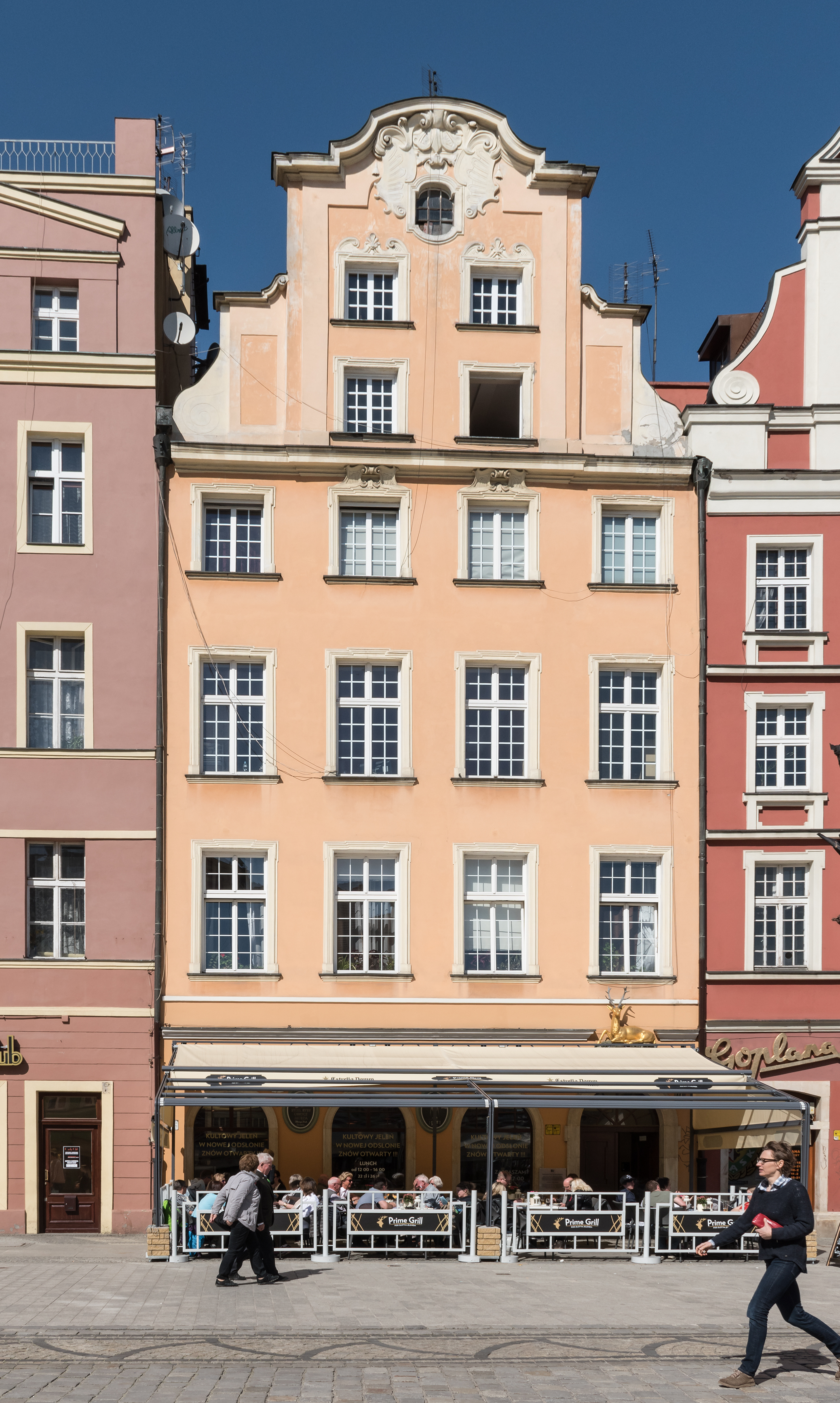 44 Market Square in Wrocław